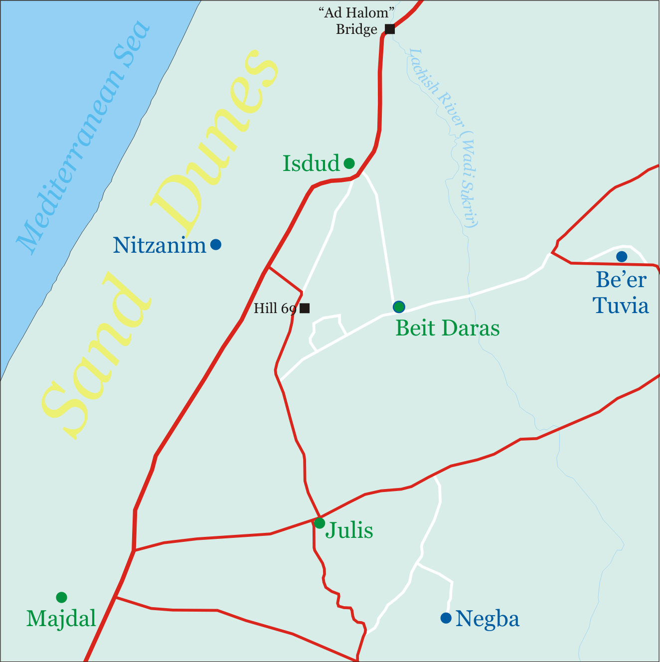 Orientation map for 1948 positions for Israeli southern front (esp. Battle of Nitzanim and Hill 69).